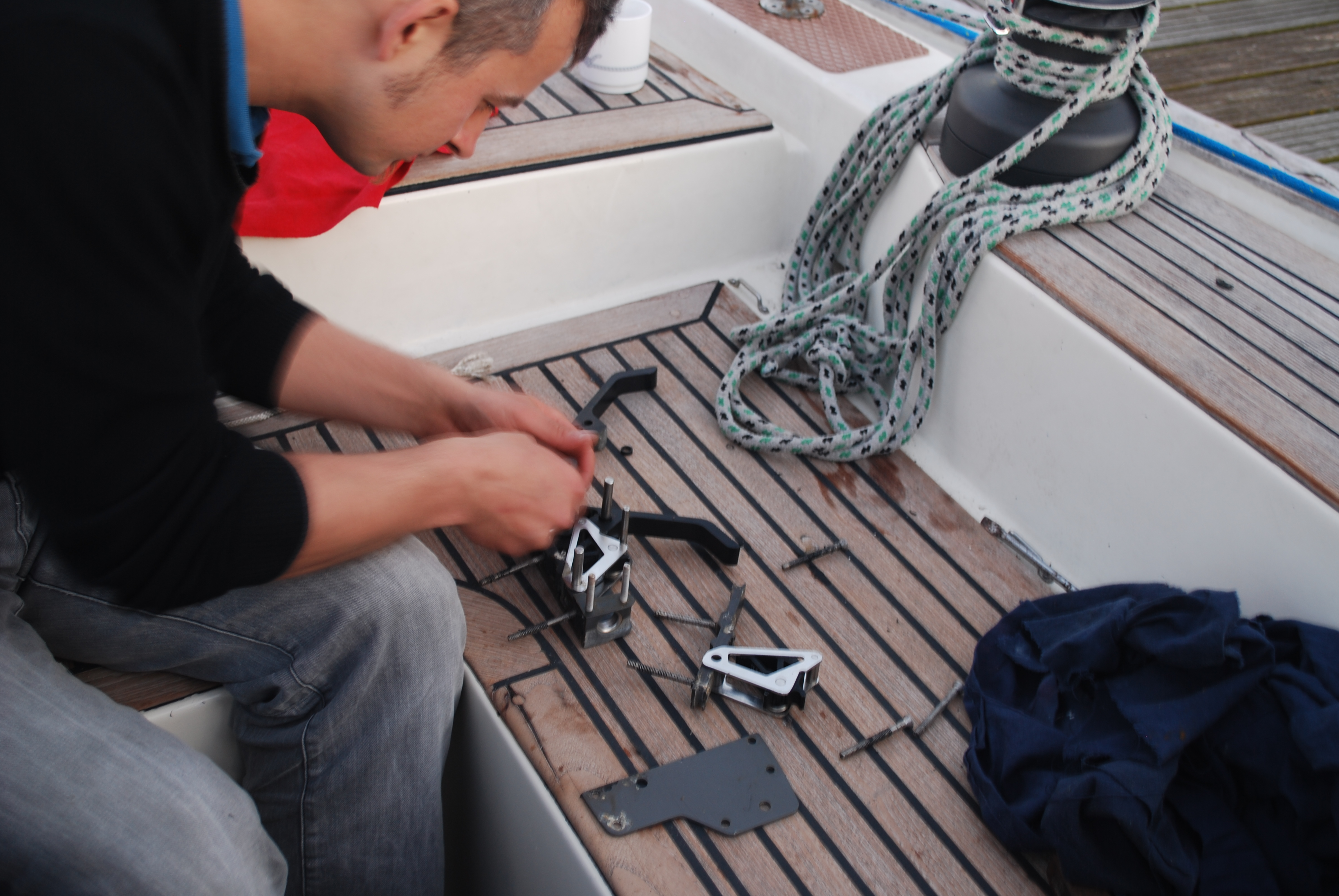 Halyard stopper, disassembled.